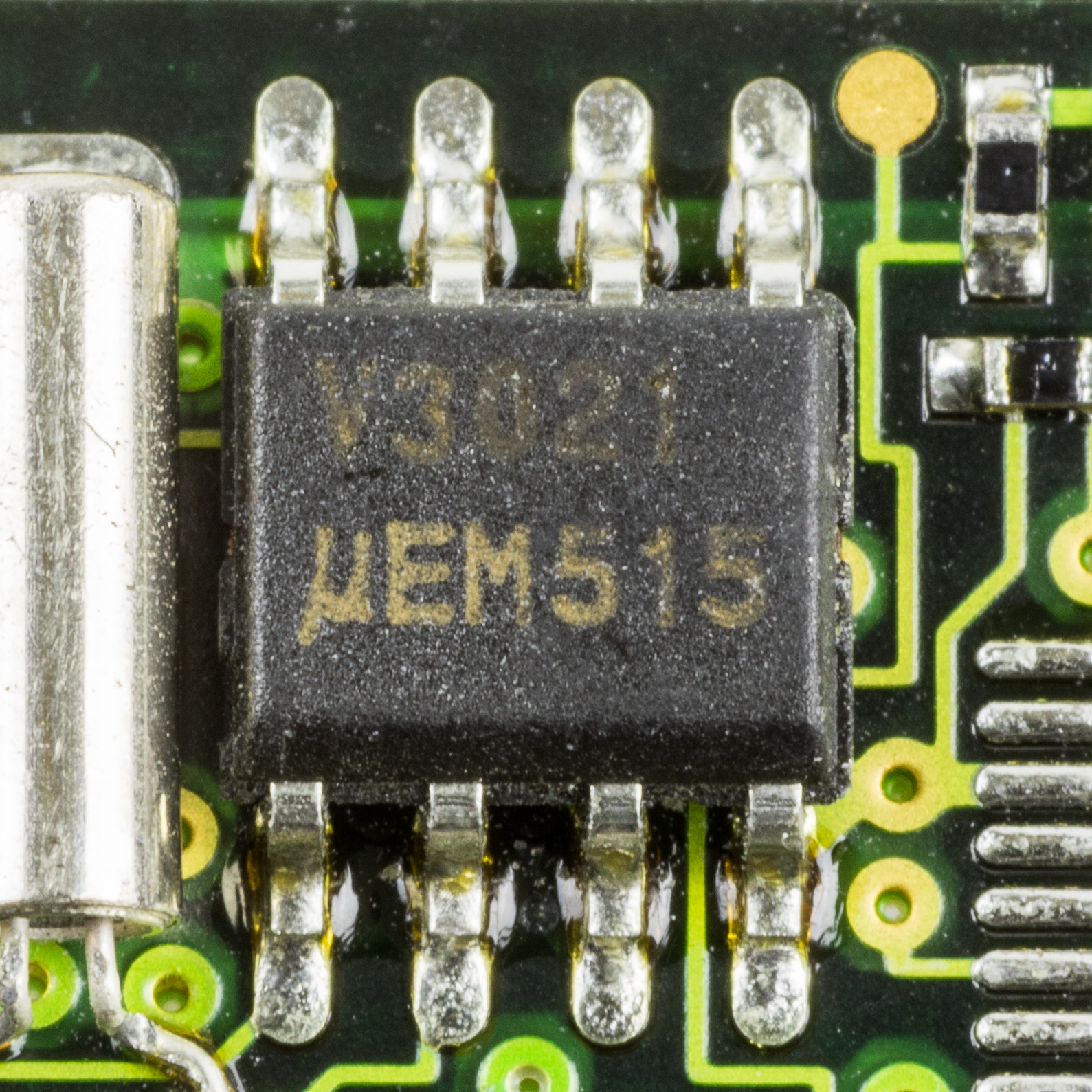 AEG Mobile Communication E-Plus PT-10 - mainboard - EM Microelectronic V3021 - Ultra Low Power 1-Bit 32 kHz RTC. Package: SO8